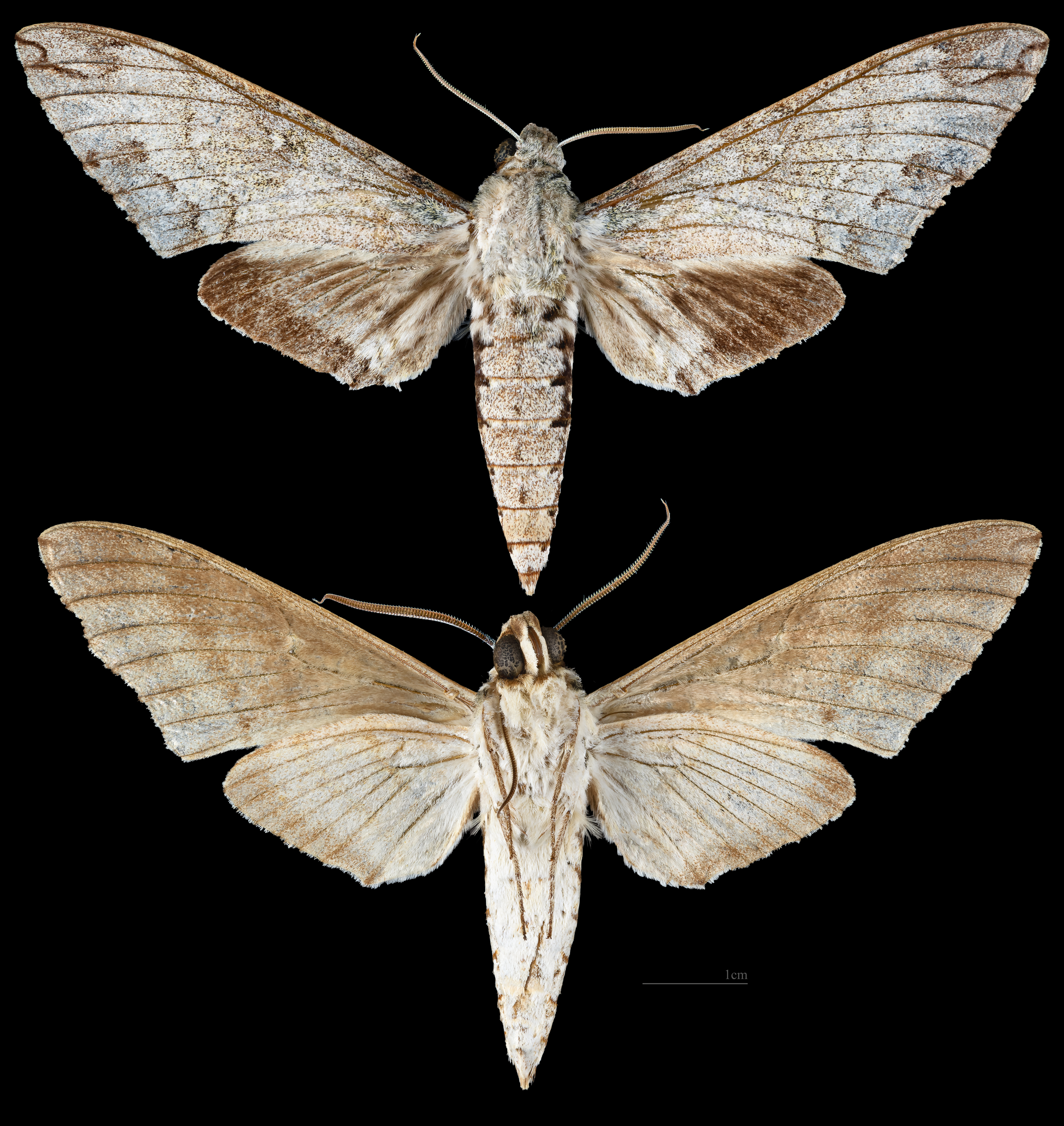 Manduca franciscae - Two views of same specimen Collection of the Mathematician Laurent Schwartz